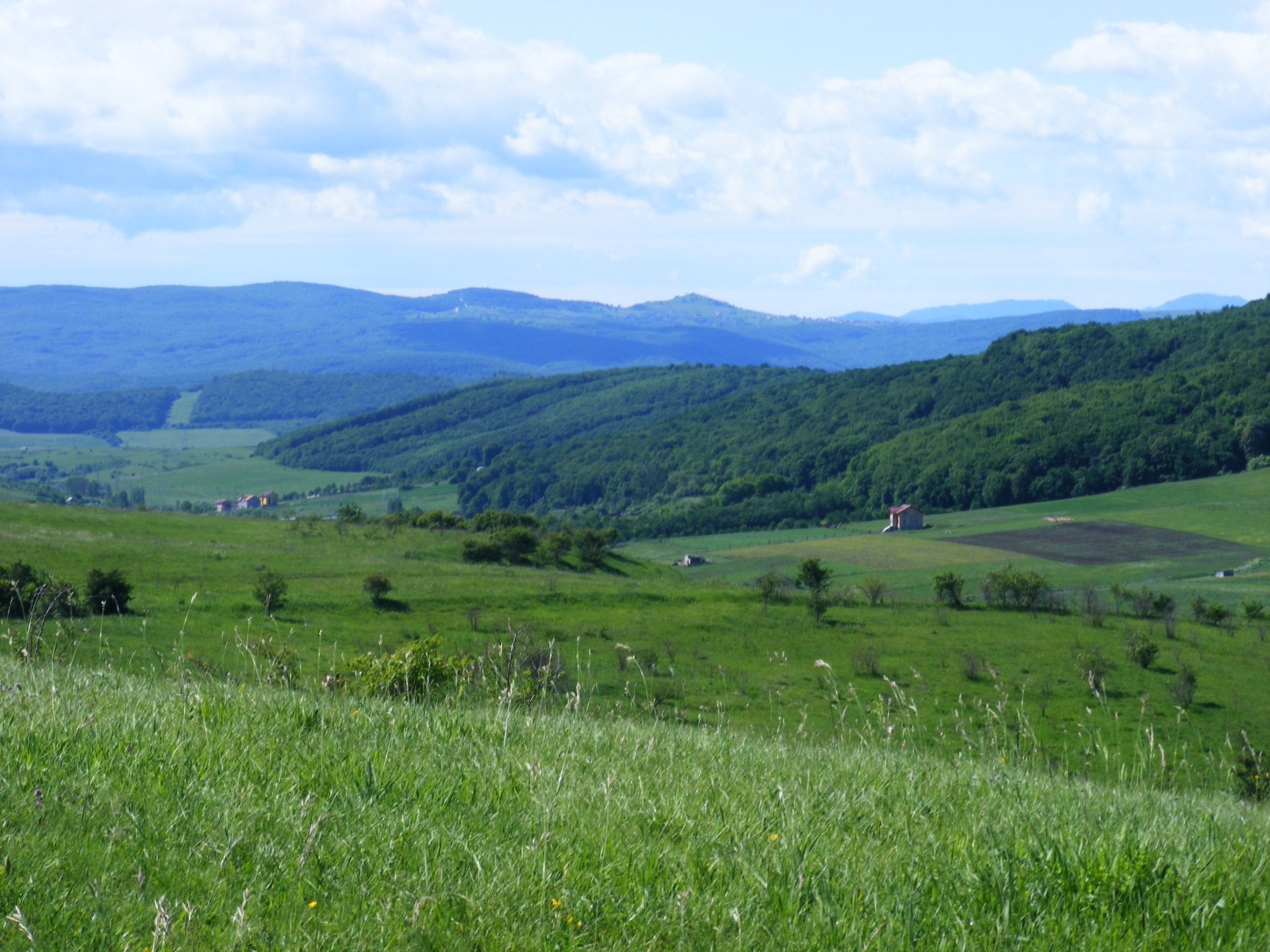 The wiew of the Nádasmente, a part of Kalotaszeg (Ţara Călatei) near Kisbács (Baciu)